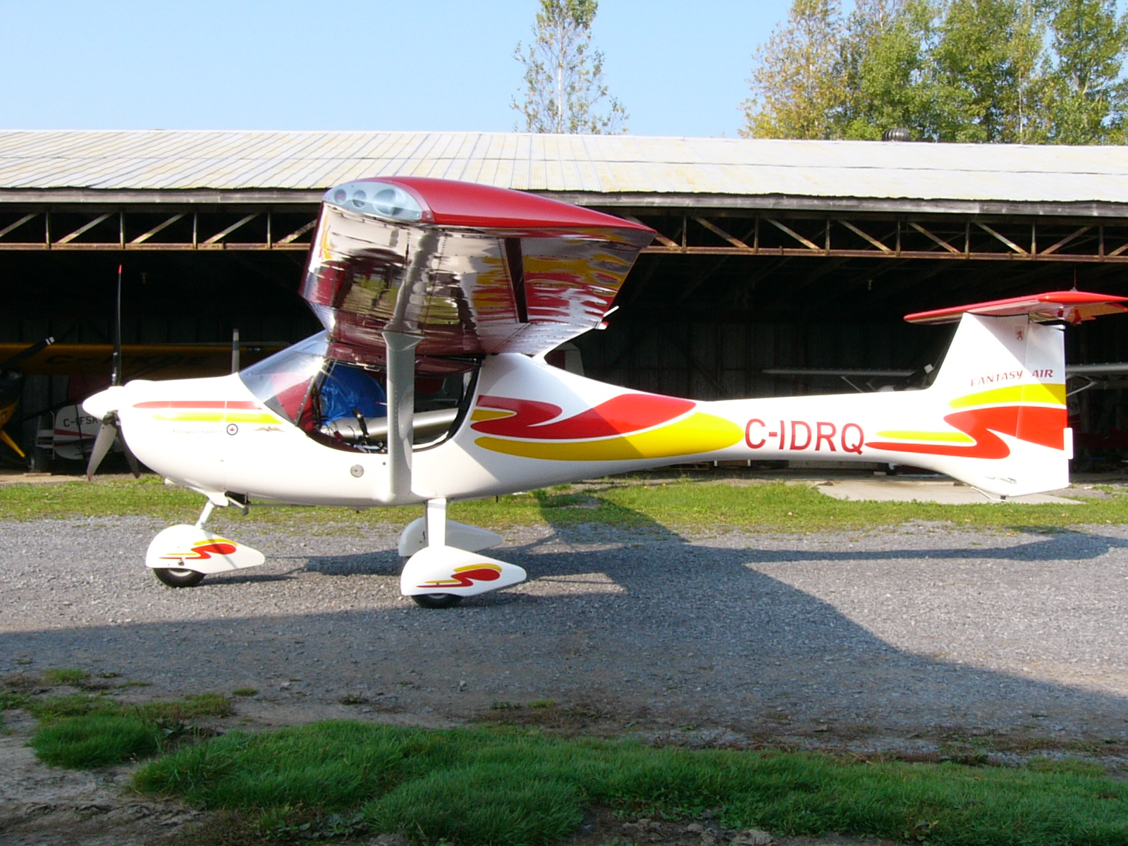 Fantasy Air Allegro 2000